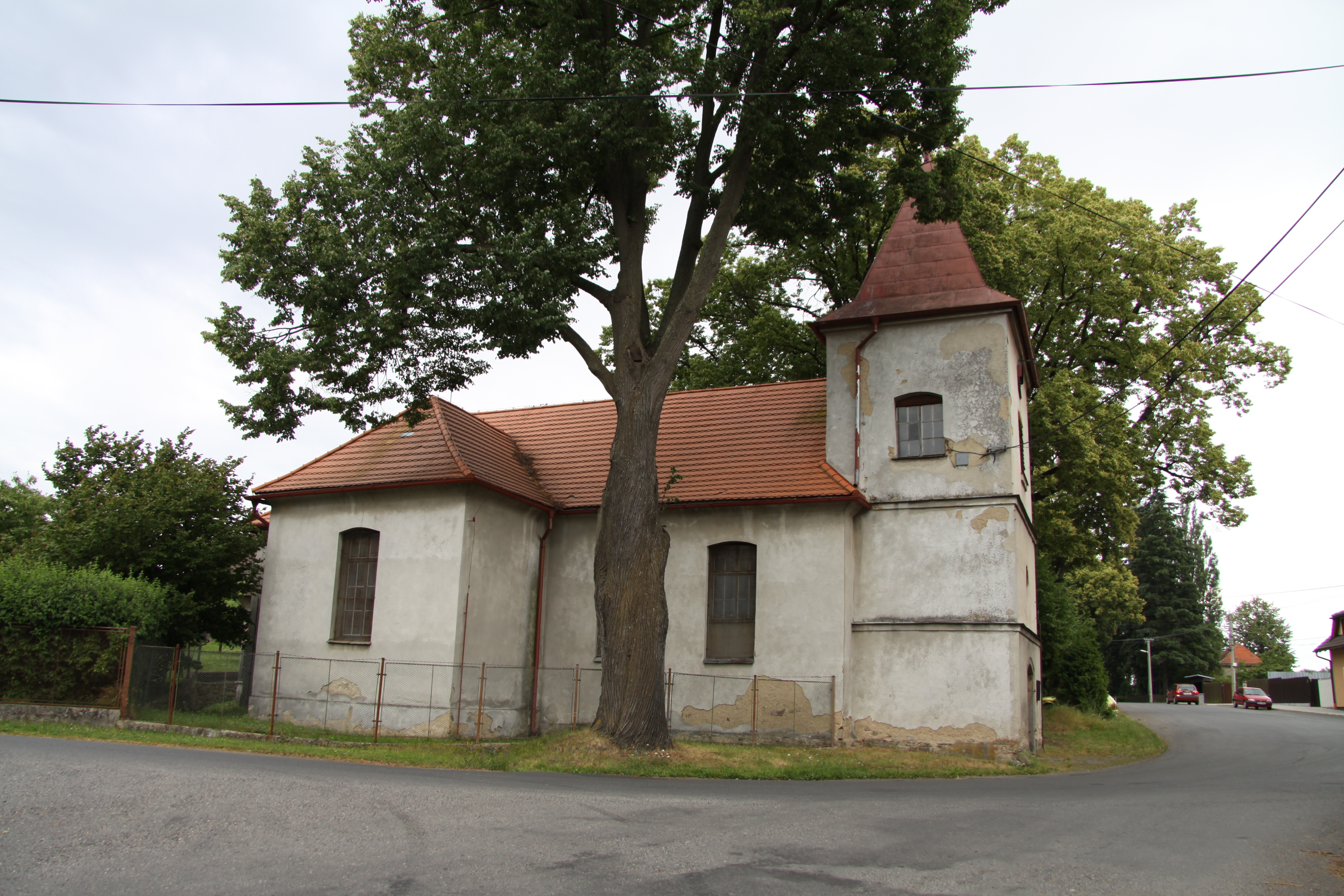 Obecnice village in Příbram District, Czech Republic. Church